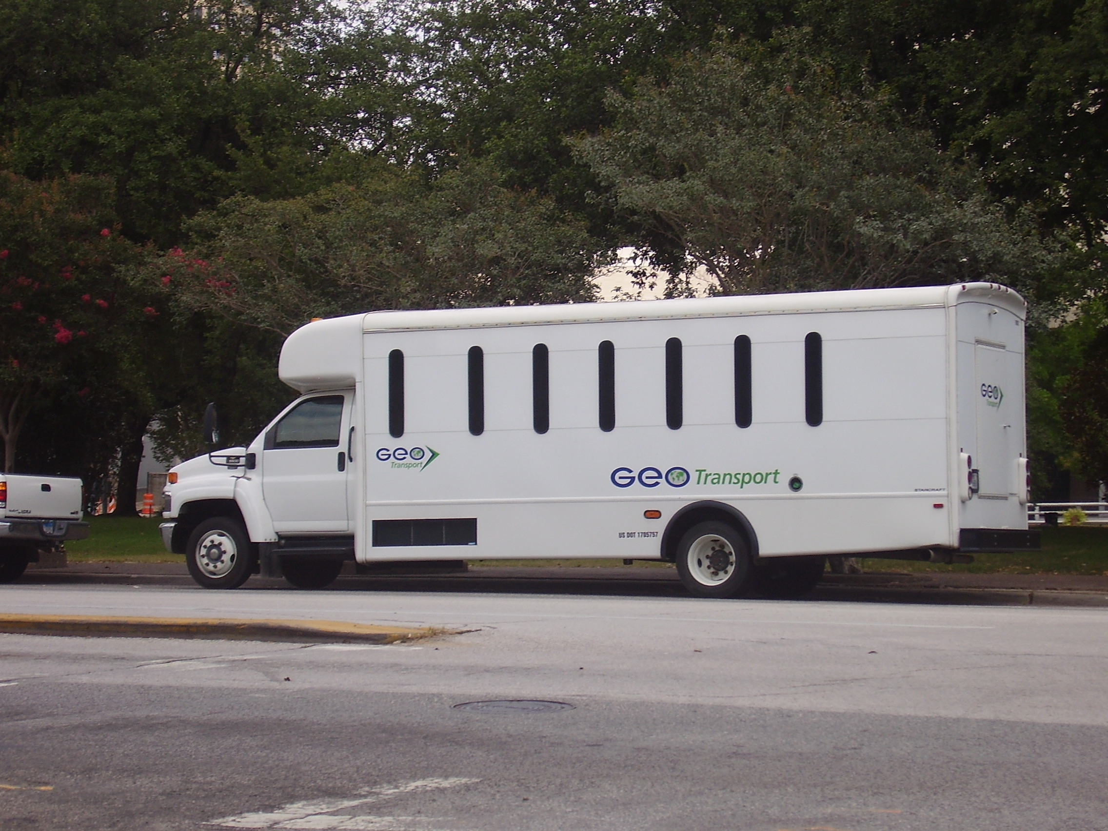 GEO Transport van